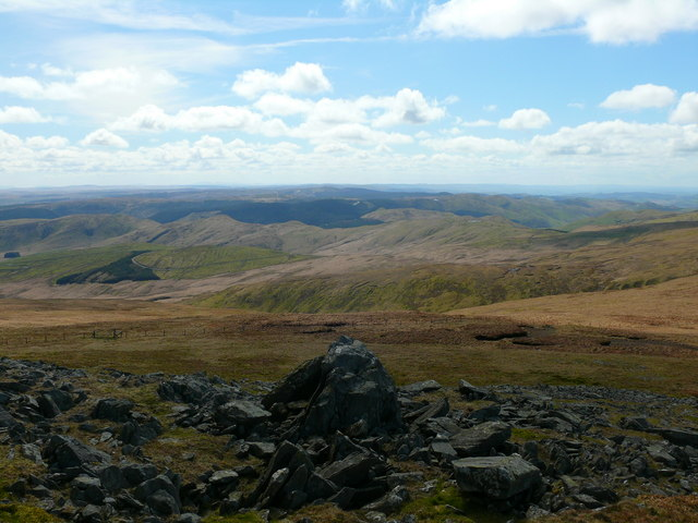 Pen Pumlumon Arwystli Yn edrych tuag at y Dyffryn Gwy oddi ar Pen Pumlumon Arwystli / Looking towards the Wye Valley from Pen Pumlumon Arwystli